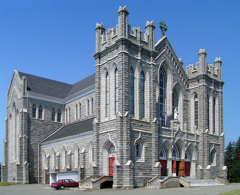 Catholic church of St. Bernard, Evangeline Trail, Nova Scotia, Canada.